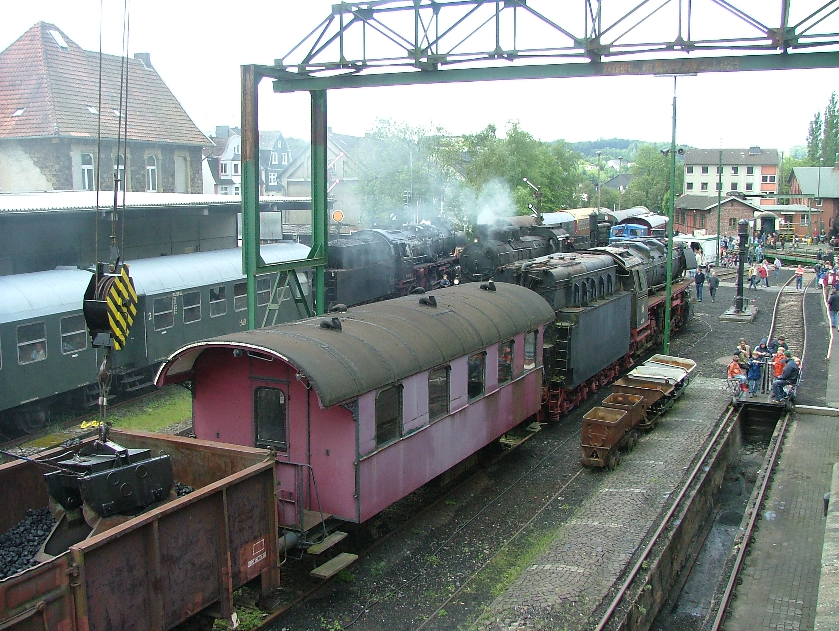 Railroad Museum Dieringhausen, Germany Eigenaufnahme vom 04.06.2006